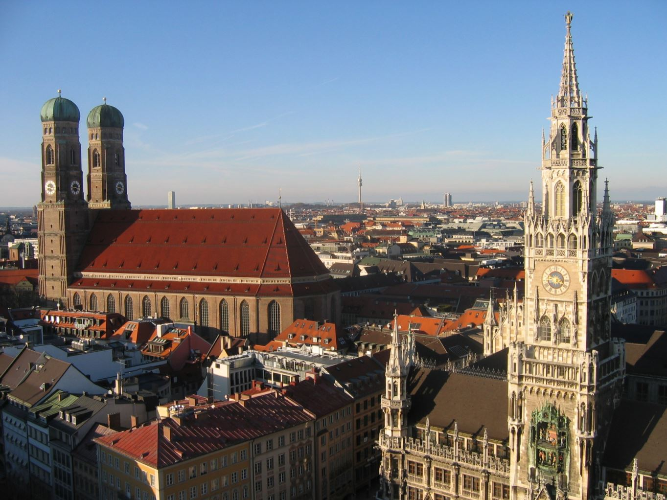 cathedral "Metropolitankirche zu unserer Lieben Frau" in munich